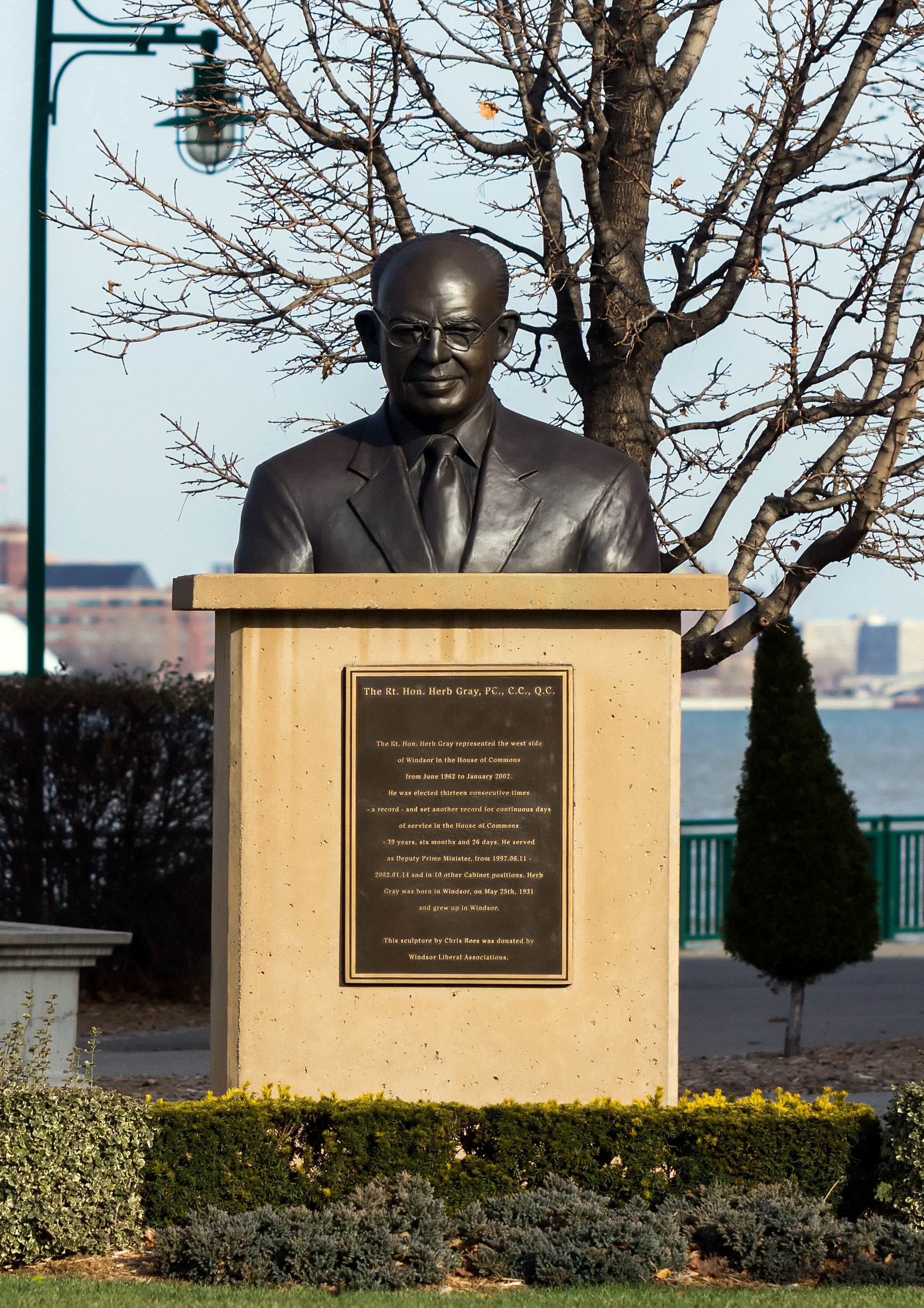 Bust of Herb Gray, Windsor, Ontario, Canada 2014-12-07. Bust by Christopher Rees.